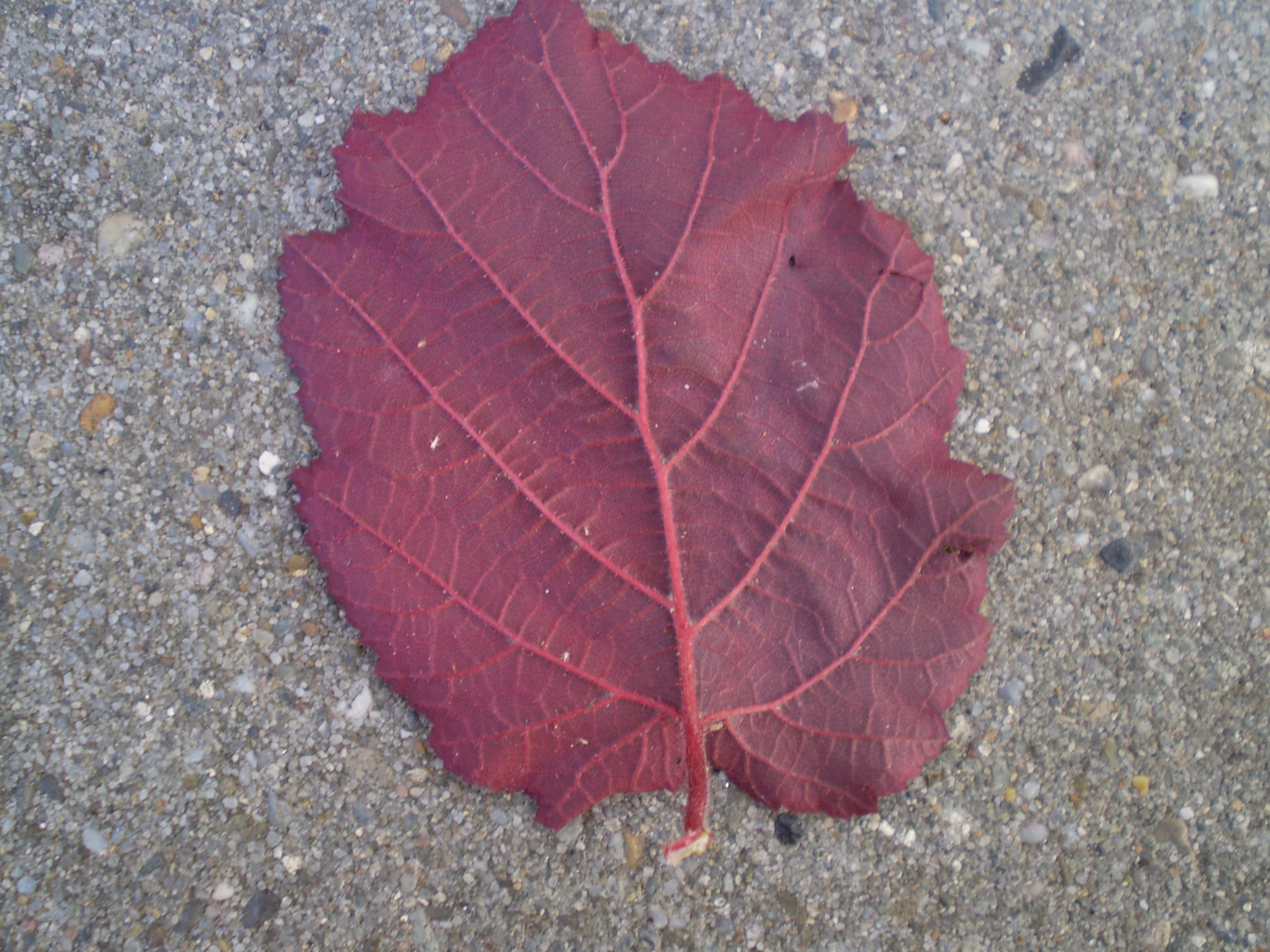 Corylus maxima Purpurea